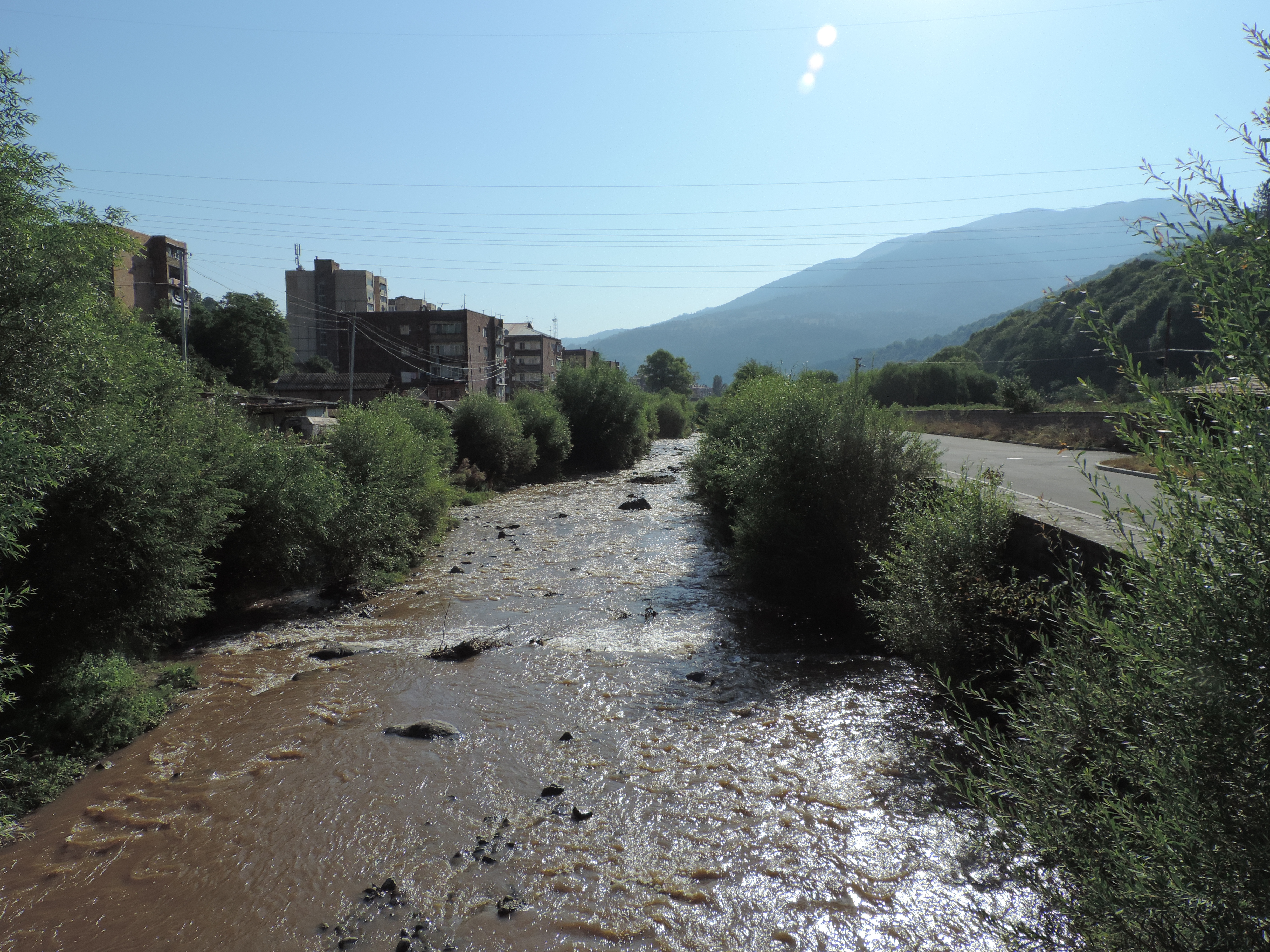 Agstev river, Dilijan